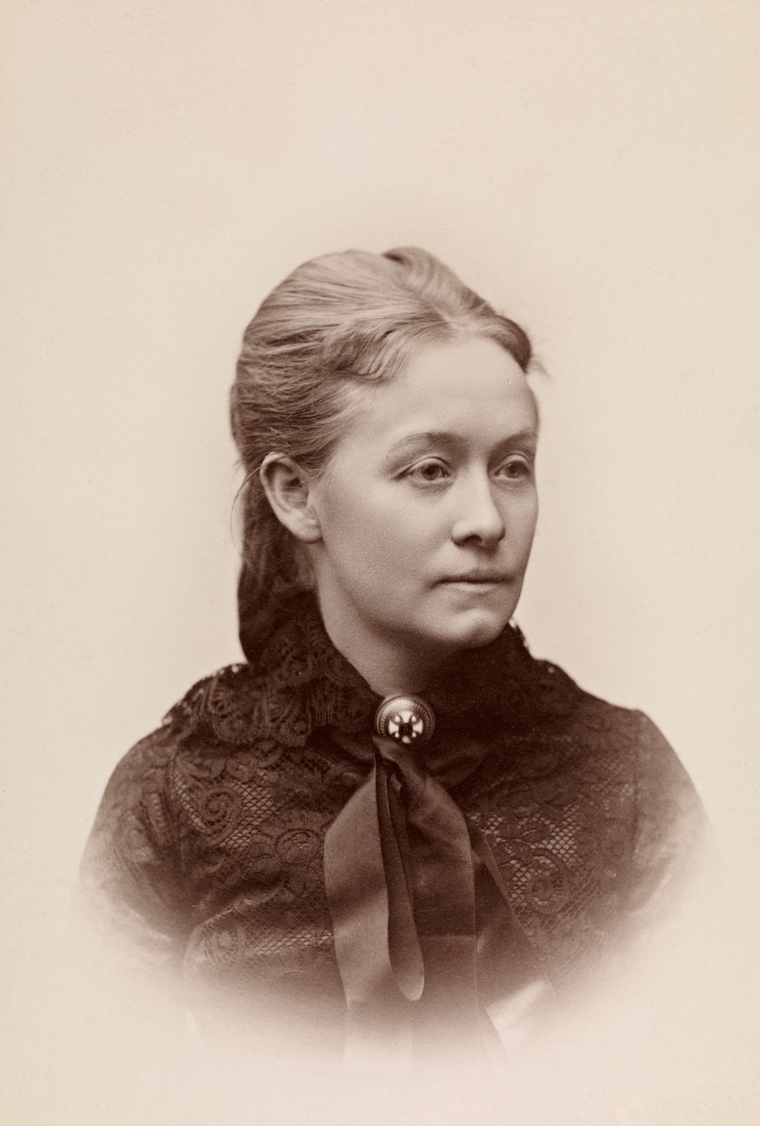 Tittel / Title: Portrett av Agathe Backer Grøndahl Motiv / Motif: Kabinettkort. Dato / Date: ukjent / unknown Fotograf / Photographer: Rude (Christiania, Drammen) Eier / Owner Institution: Nasjonalbiblioteket / National Library of Norway Lenke / Link: Bildesignatur / Image Number: blds_01039